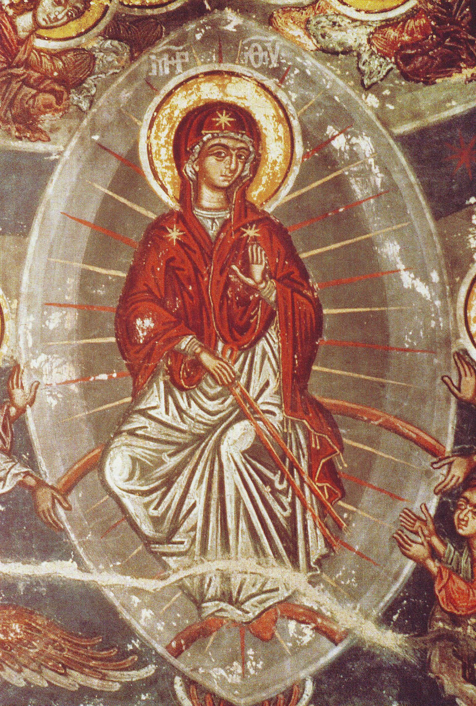 The Holy Monastery of St. Stephen